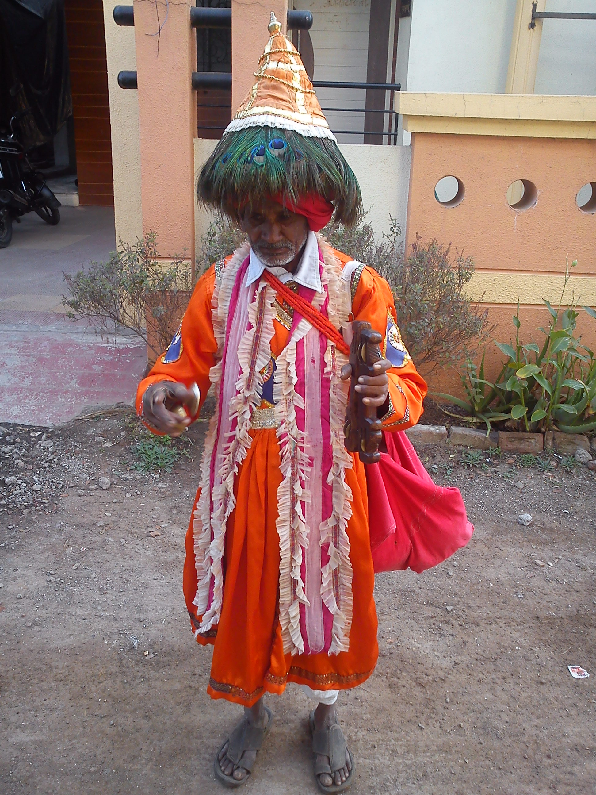 'Vasudev' are people believed to be incarnation of Lord Krishna. Bedecked in the distinctive headgear of peacock feathers, performers sing Vasudev songs and with nimble, delicate dance steps, whirl around presenting anecdotes from Lord Krishna's life in exchange for alms. The sing soothing, melodious notes through the villages in the morning time.